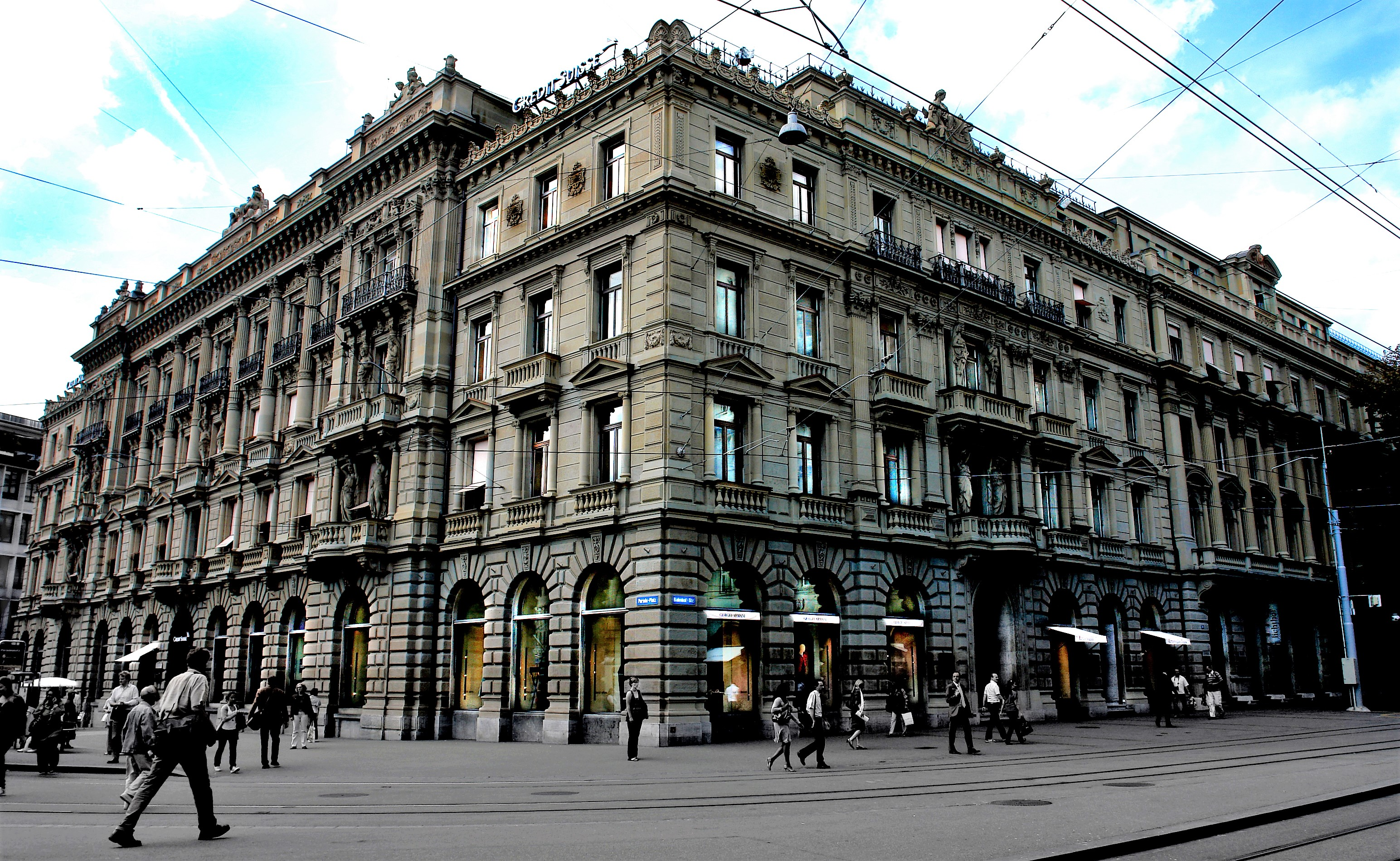 This is the Credit Suisse building on the corner of Bahnhofstrasse / Paradeplatz.